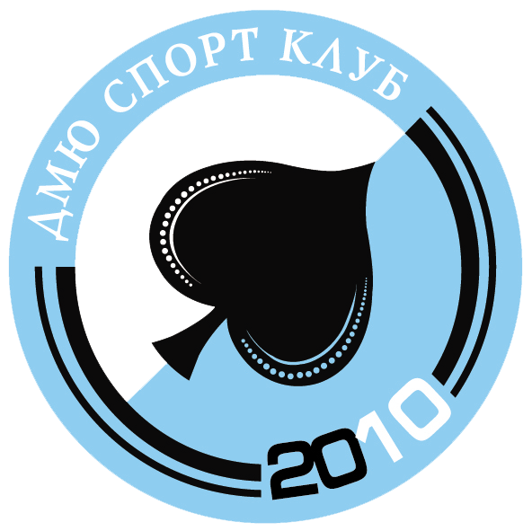 "ДМЮ" лого